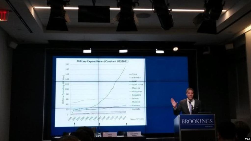 David C. Kang, Professor of the University of Southern California, delivered a speech at the seminar "Is there an arms race in East Asia?".